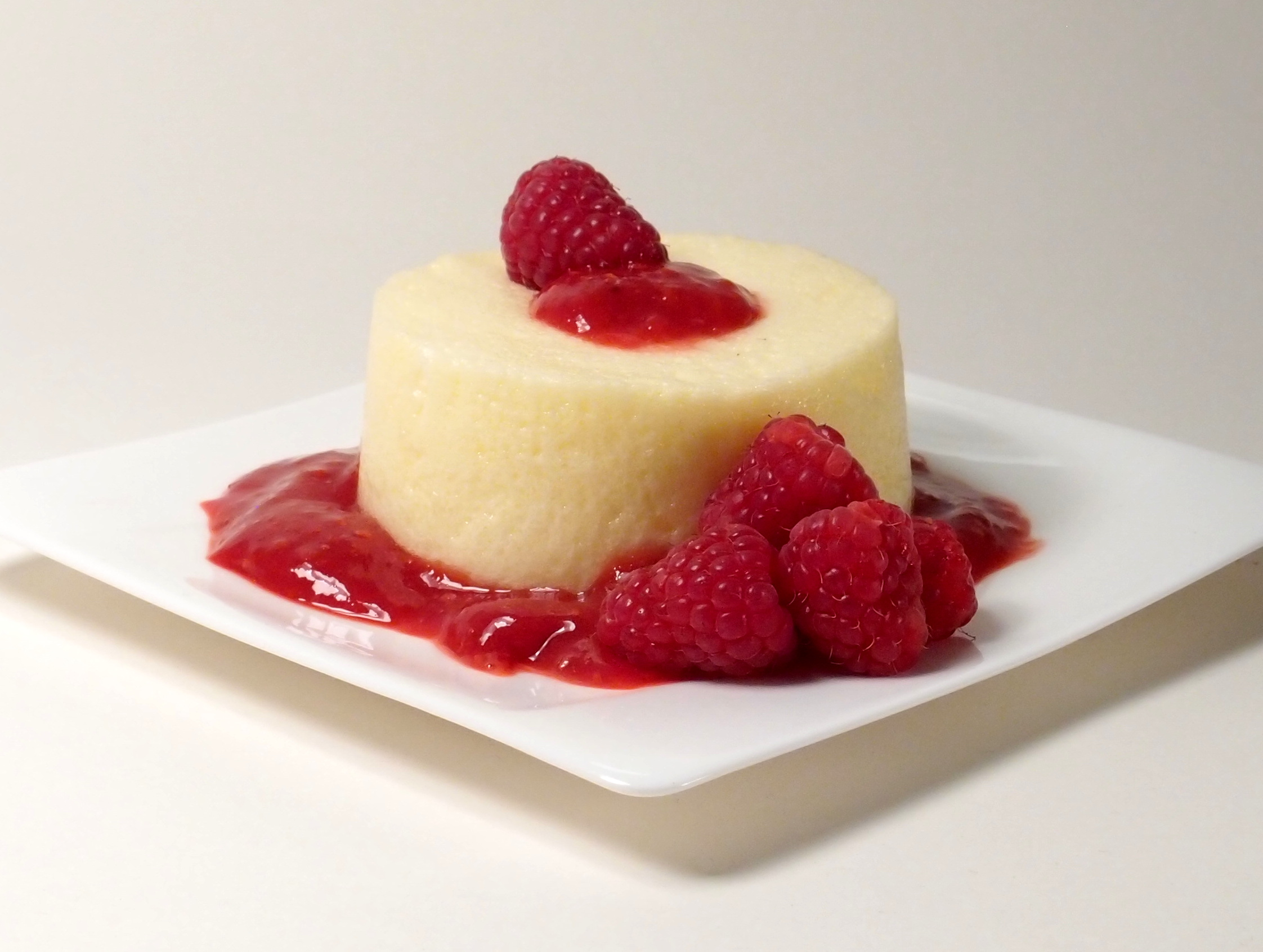 “Berliner Luft” (Berlin Air), an airy, mousse-type dessert. It is based on whipped egg, sugar, gelatin, lemon and optionally – as in this case – white wine, and is always served with raspberry sauce.